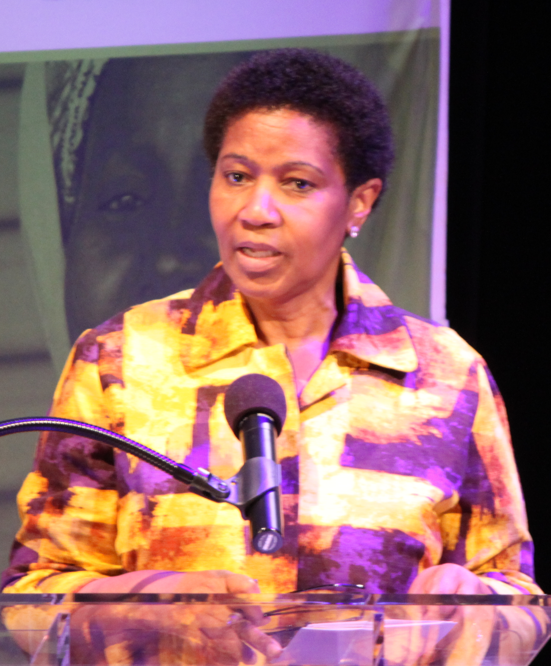 Executive Director of UN Women Phumzile Mlambo-Ngcuka talks about empowering women and leadership at the MDG Countdown event at the Ford Foundation, 24 September, 2013. Picture: Marisol Grandon/Department for International Development